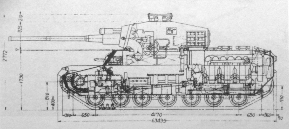 Imperial Japanese Army Type 4 medium tank Chi-To （Planned production model）. A schematic illustrating the interior side view.